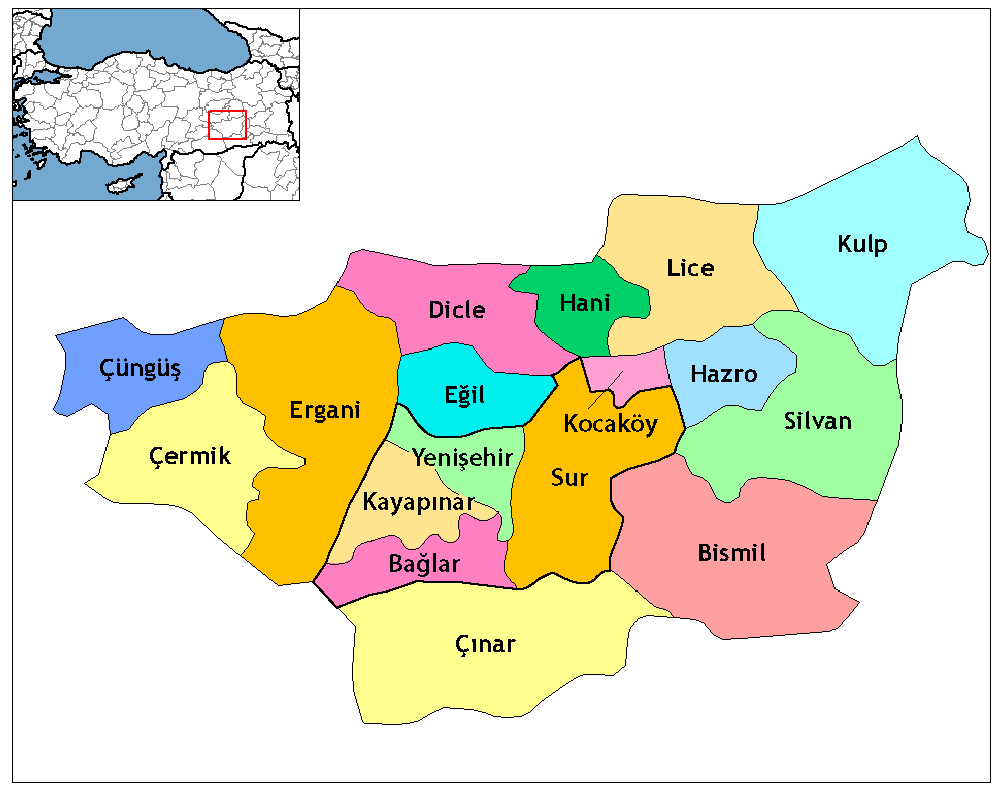 Map of the districts of Diyarbakır province in Turkey. Created by Rarelibra 19:52, 1 December 2006 (UTC) for public domain use, using MapInfo Professional v8.5 and various mapping resources. Edited by One Homo Sapiens Corrected text where İ,Ş,ı,ğ,or ş occurs in name. Source: [statoids-com]. Increased font size and enhanced color differences among adjacent districts.